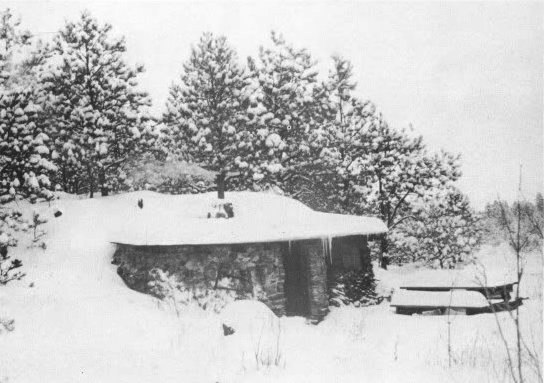 Jan and Herb Conn self build house "Conncave" near Custer, SD